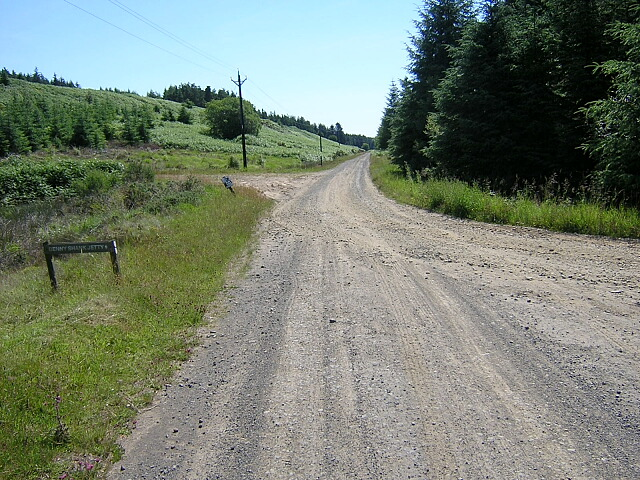 Track in Kielder Forest. Track in Kielder Forest on north side of Kielder Water